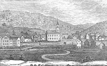 South View of Winsted, Winchester, a woodblock print from a sketch by John Warner Barber for his Connecticut Historical Collections, New Haven, Connecticut 1836.